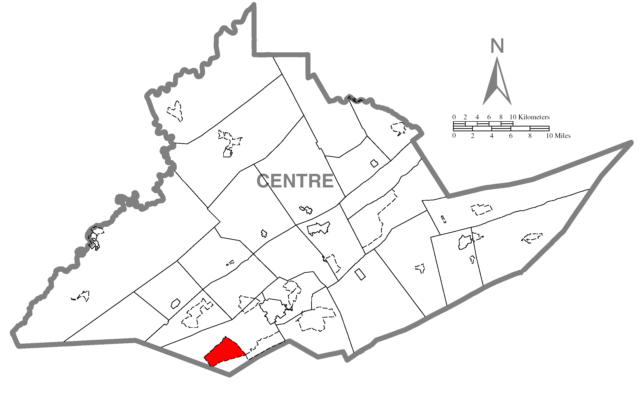 A map of Centre County showing Ramblewood, Pennsylvania (alternate) highlighted on the map.